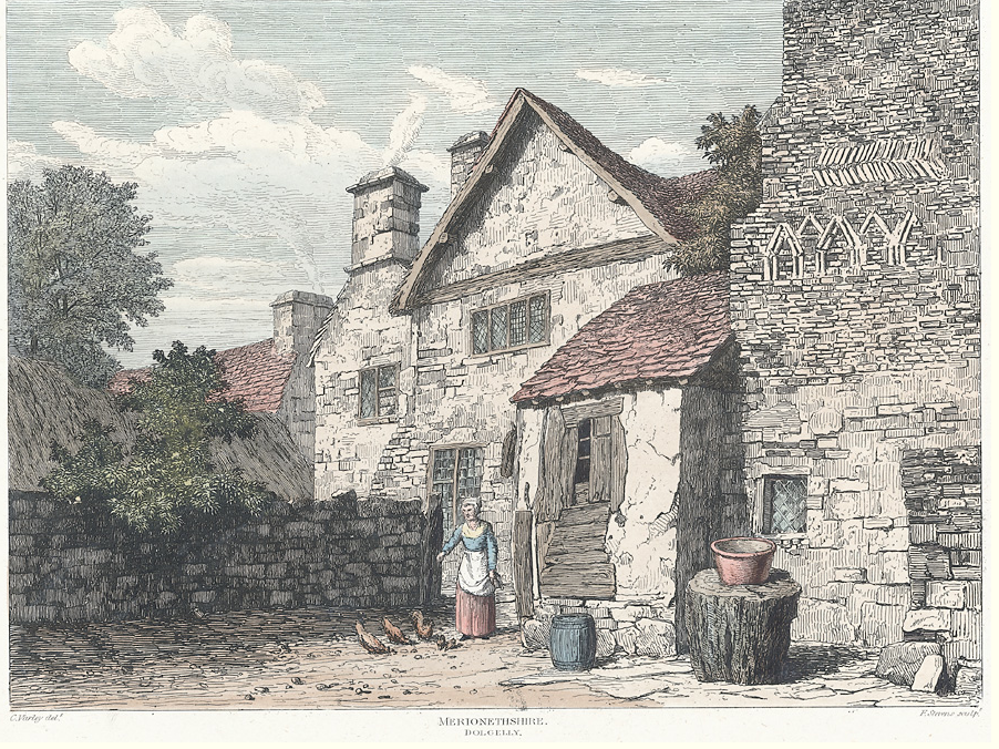 Houses next to Owen Glyndwr's Parliament House by Cornelius Varley 1815